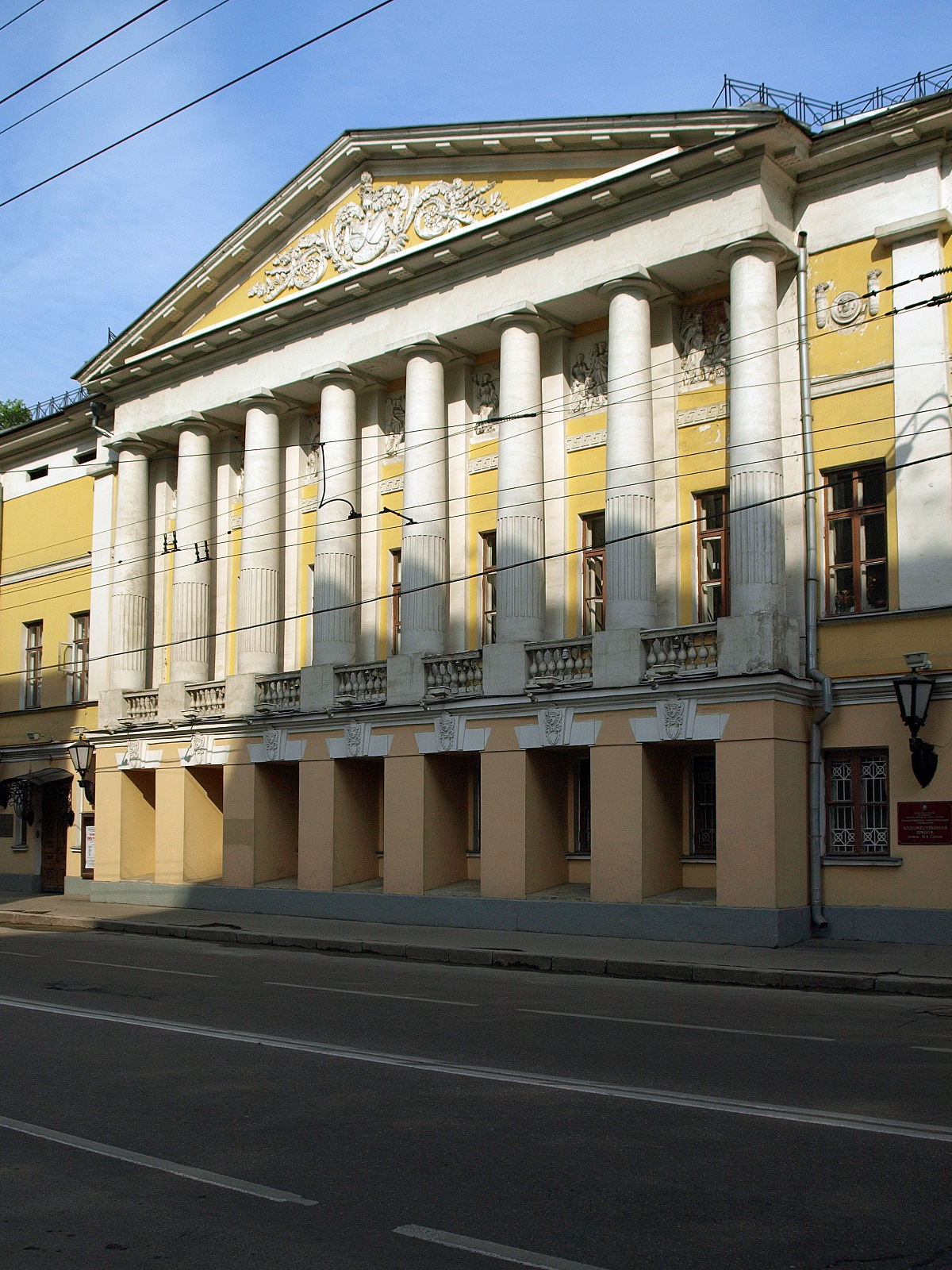 Prechistenka Street, Moscow.